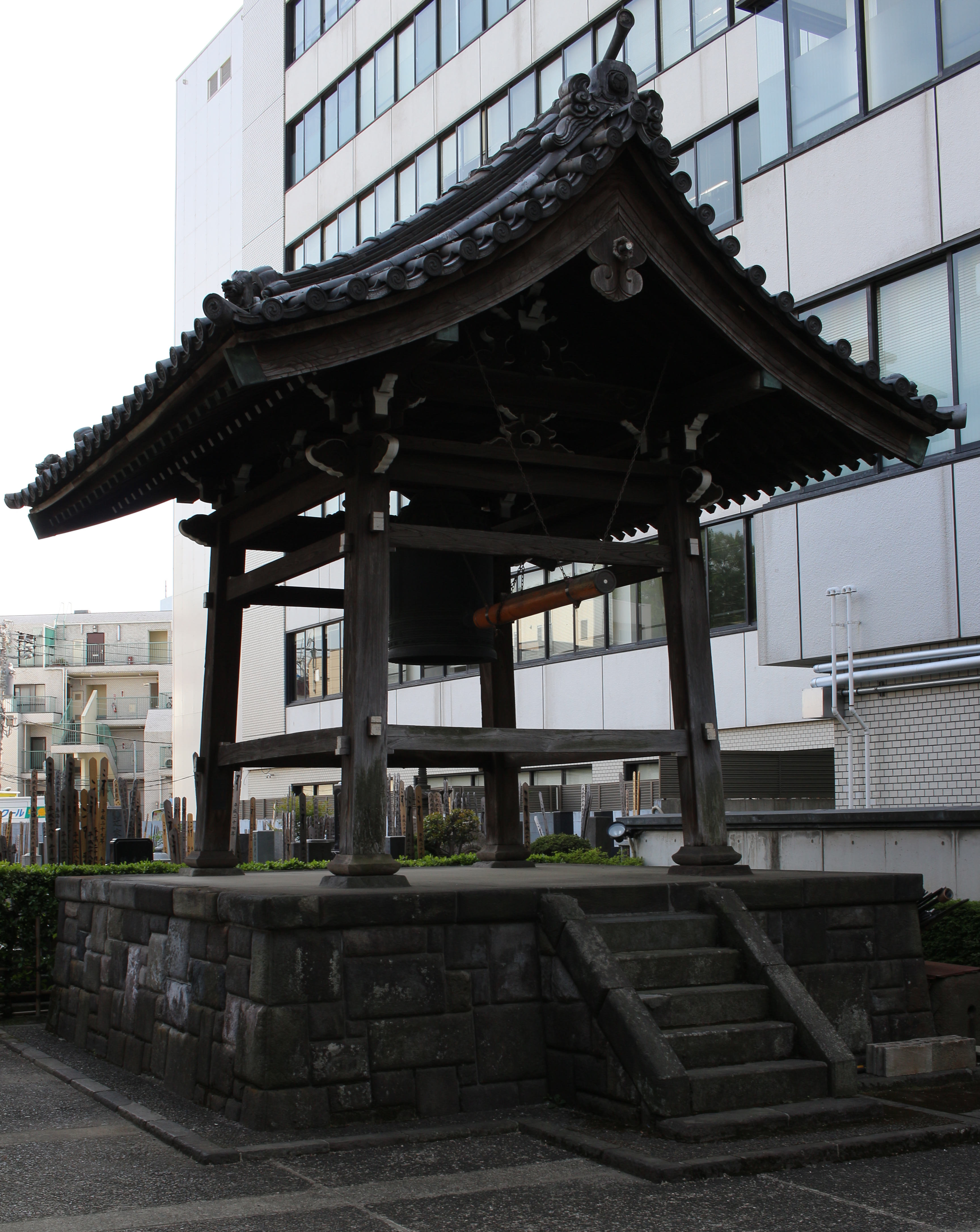 Buddhist temple Tenryuji in Shinjuku, Tokyo.